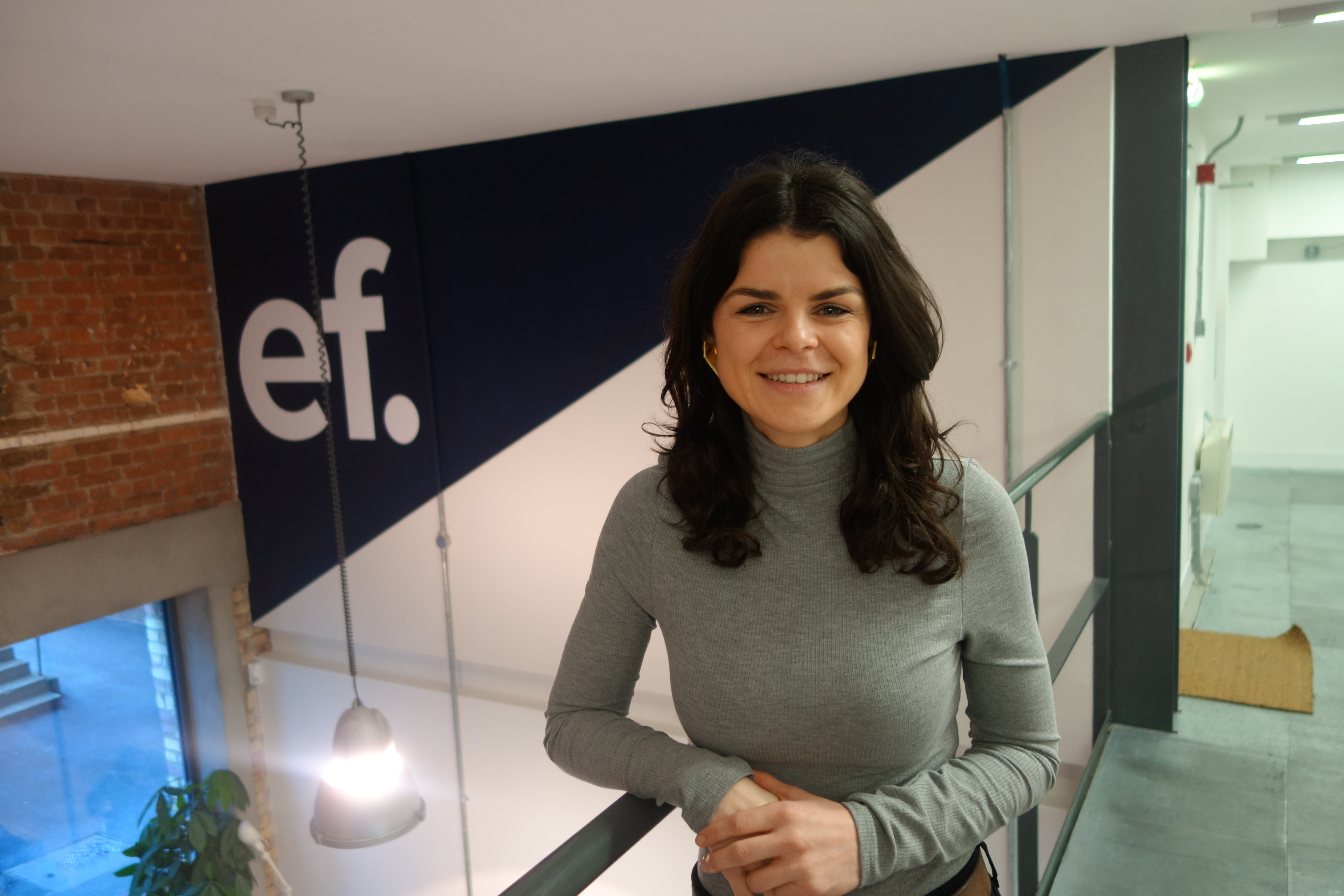 Alice Bentinck in Entrepreneur First's London office